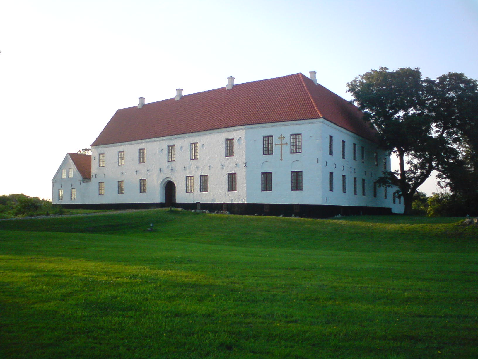 Odden Mansion